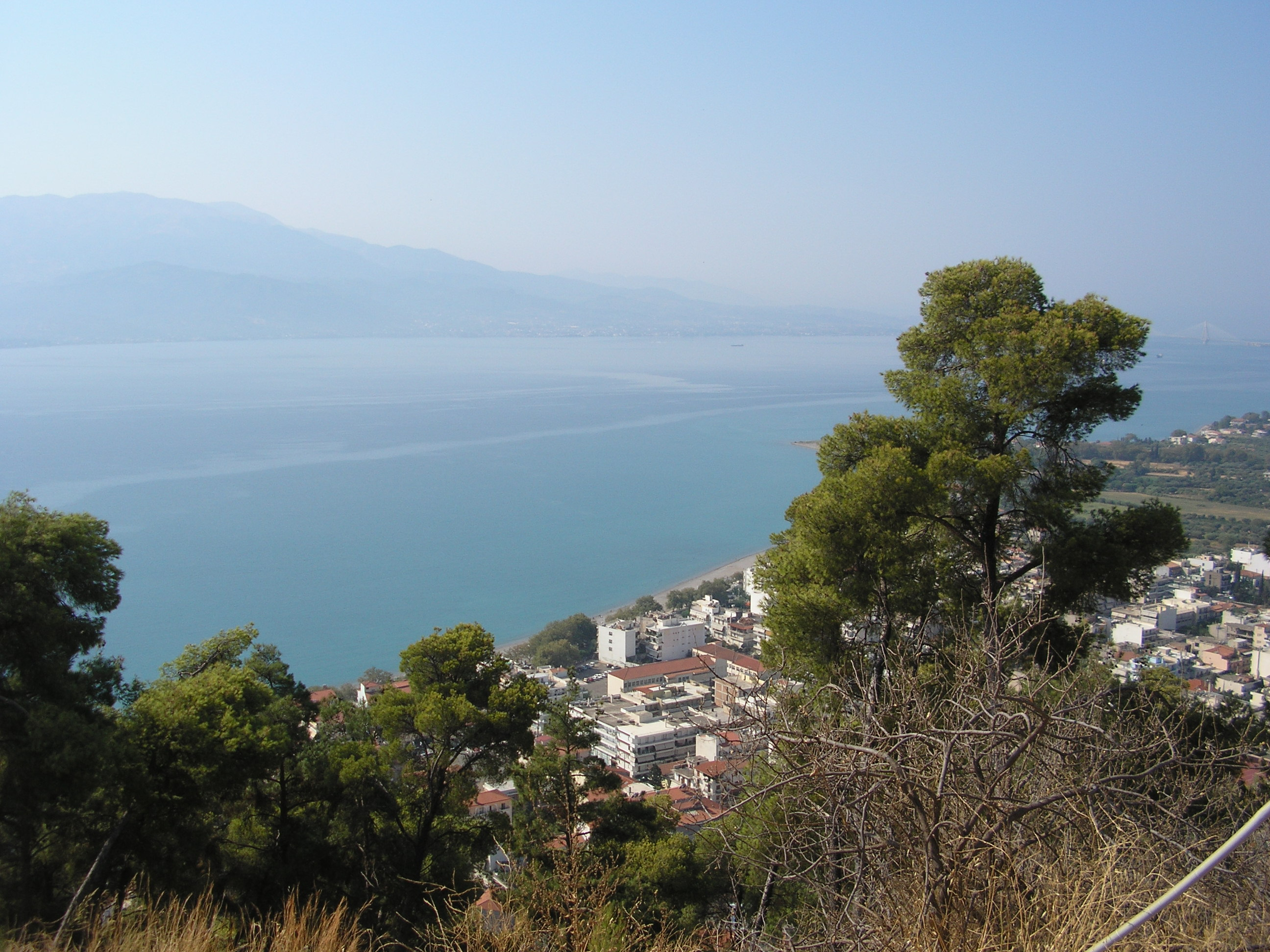 Nafpacto